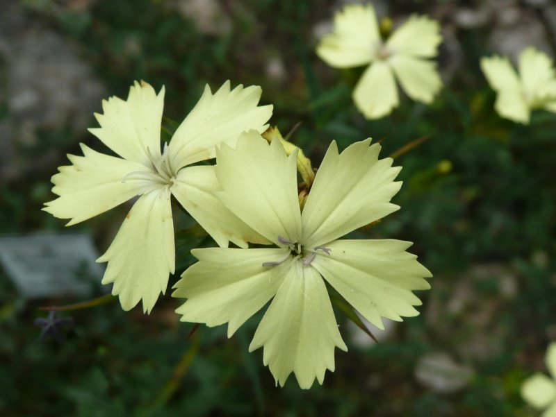 Dianthus knappii in the Botanical Garden Erlangen